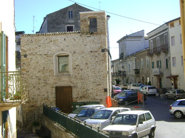 Largo Castello, in the ancient zone of Atessa. To the left is seen the church of St. Pietro and behind the Palace De Marco. From the other side of the road is seen the Palace Marcolongo, the tallest building